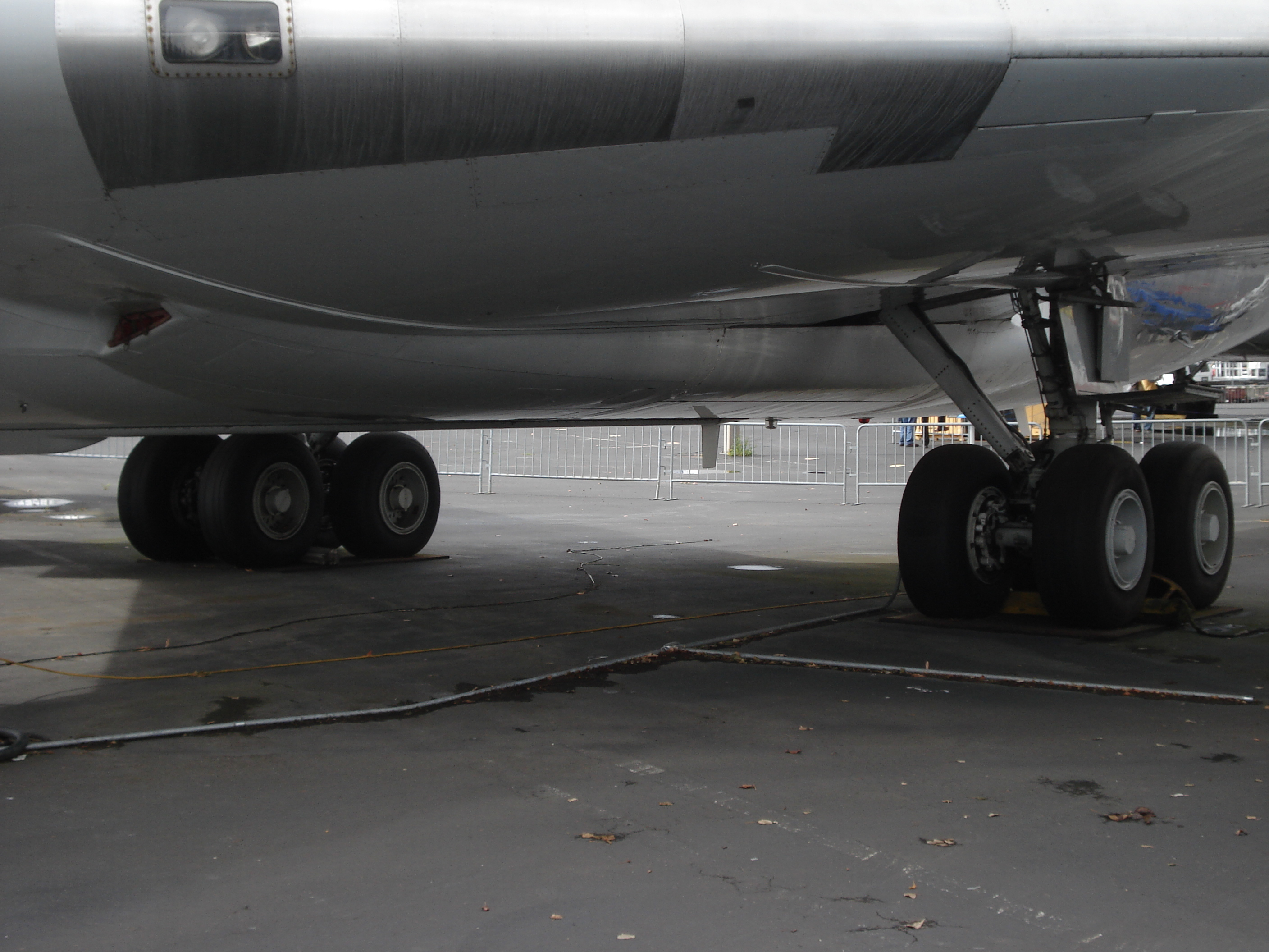 The undercarriage of a 707.